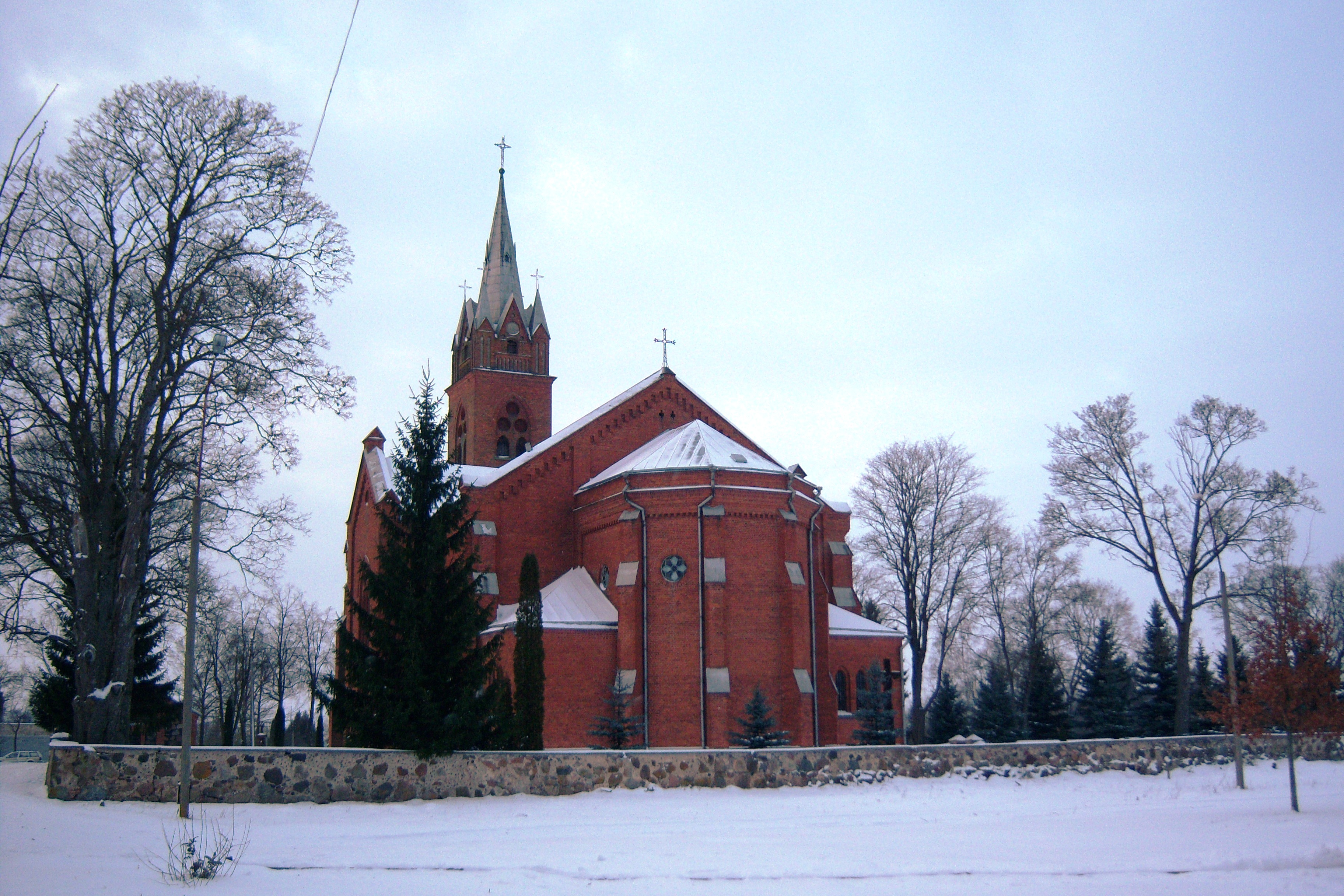 Viešintos church, back facade, Anykščiai District. Lithuania